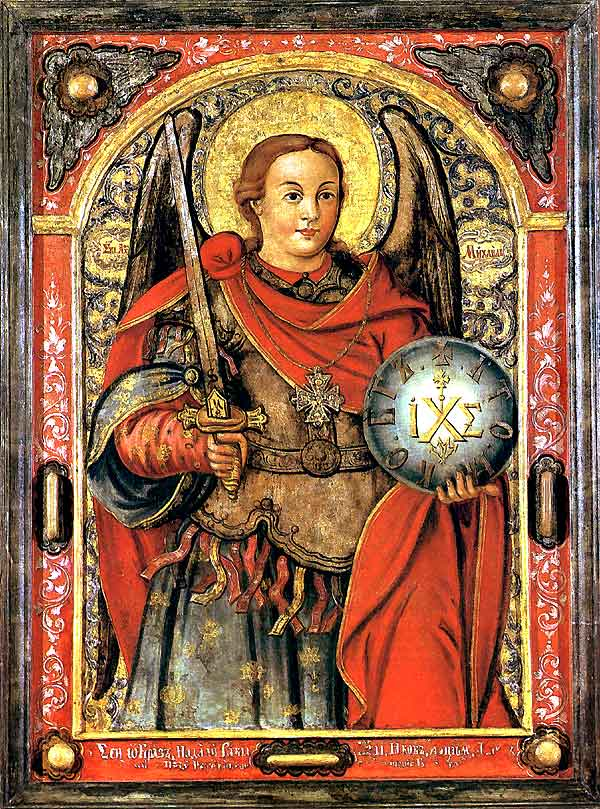 The Archistrategus Michael. Mid-18th.